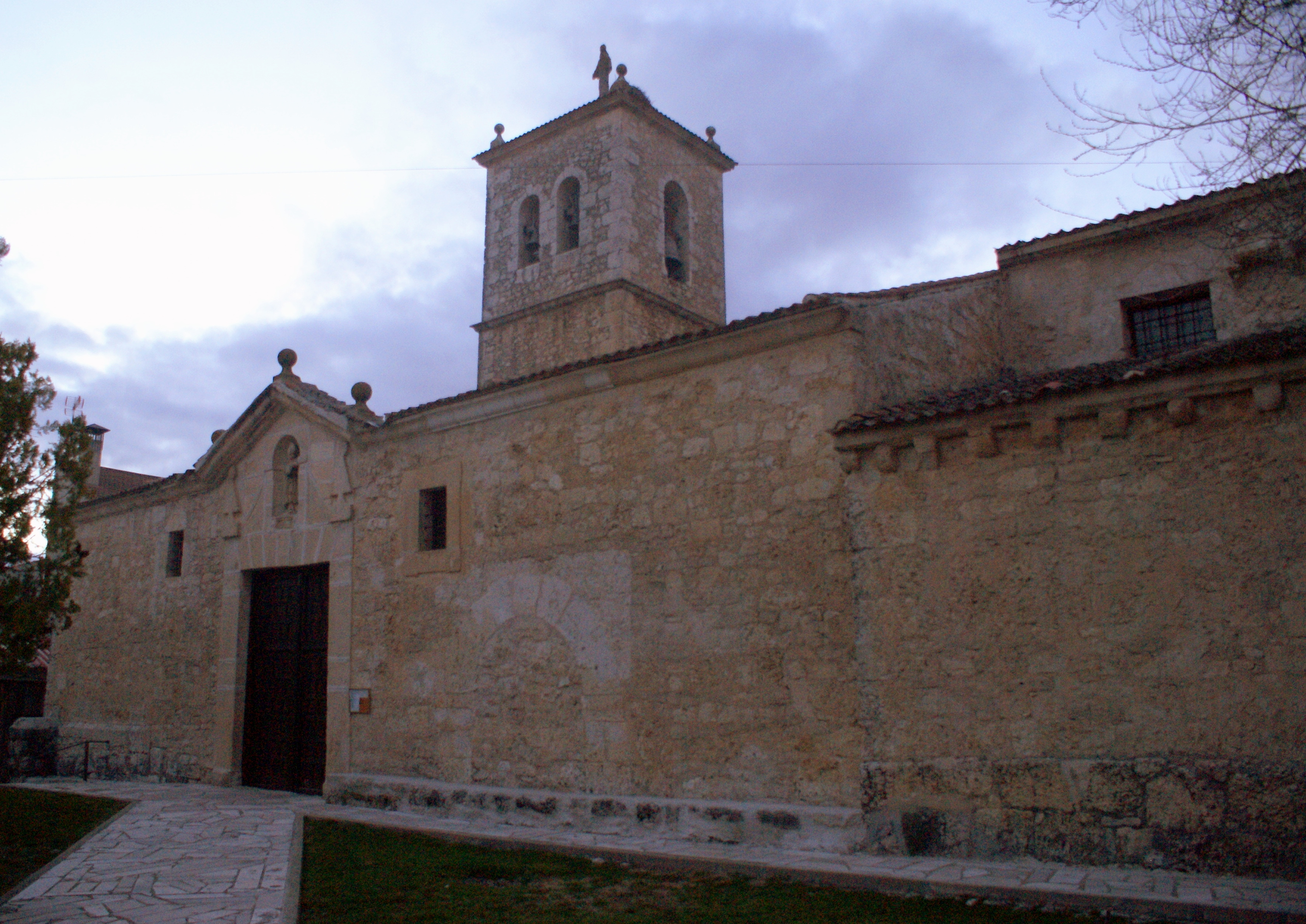 Church of Fuentepiñel, Segovia, Spain.